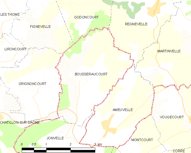 Map of French municipality